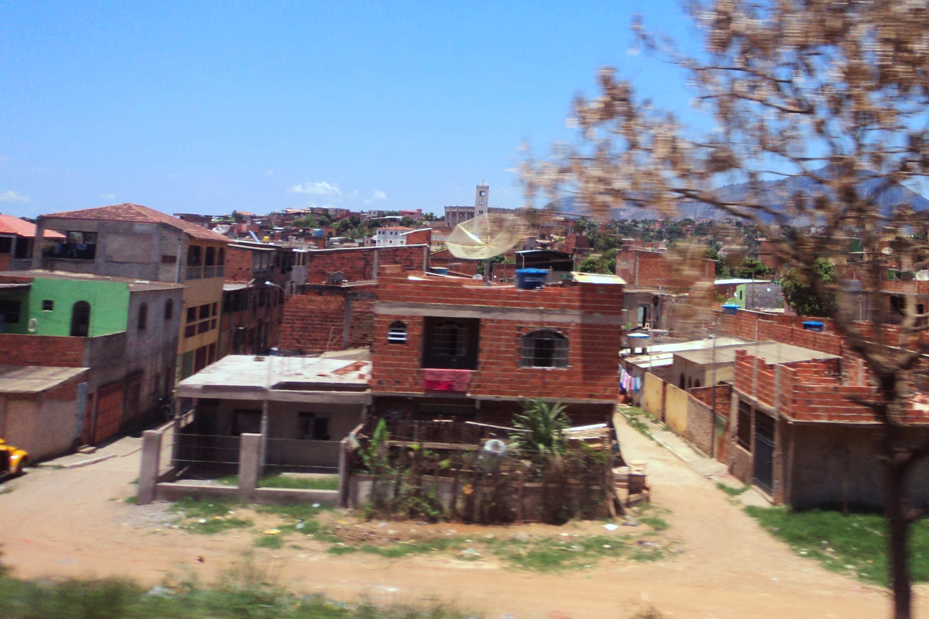 Poor houses in the Nova União neighborhood, in Governador Valadares, Minas Gerais, Brazil.